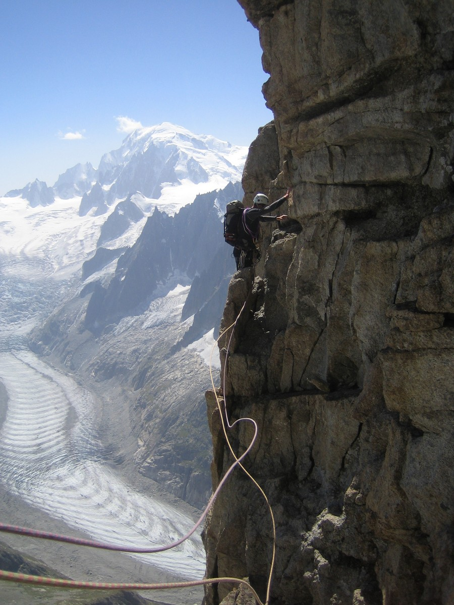 Grand Dru : Pilier S - voie Contamine